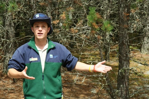 A Neys Provincial Park Interpreter, giving a guided walk discussion about the Neys Prisoner of War camp, Summer 2006